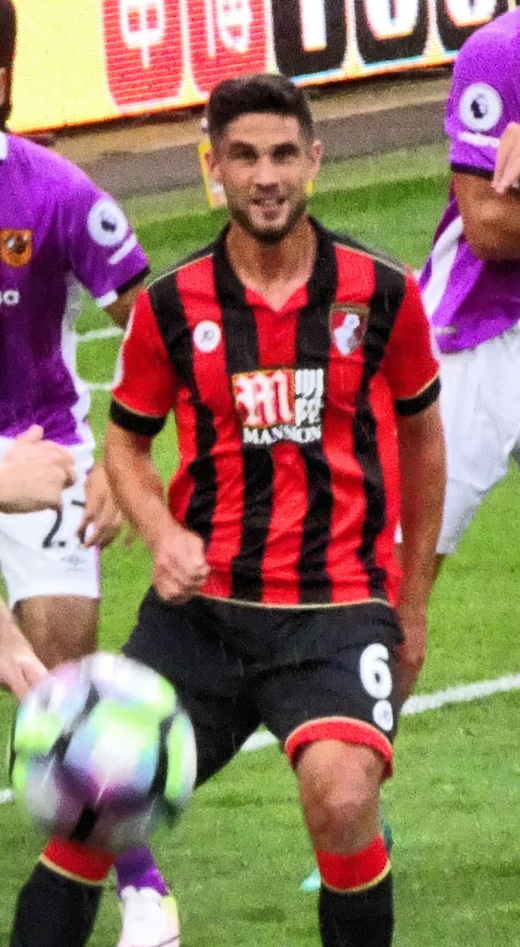 Andrew Surman playing for Bournemouth against Hull City at Dean Court, Bournemouth on 15 October 2016